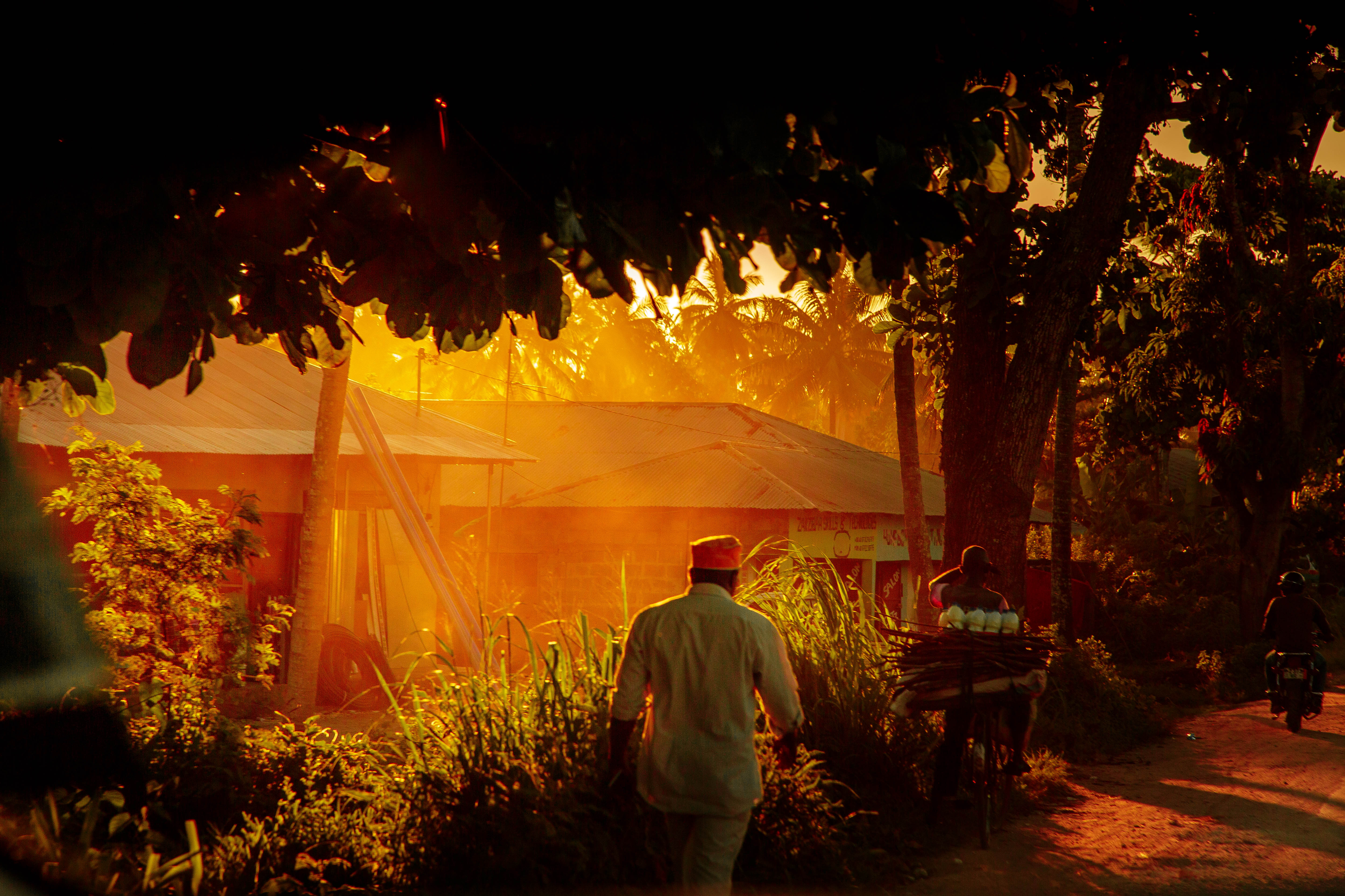 Service roads for both pedestrians, motorcycles and bicycles at Fuoni Zanzibar This is an image with the theme "Africa on the Move or Transport" from: Tanzania